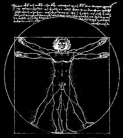 Leonardo's Vitruvian man, as he appears on T-shirts